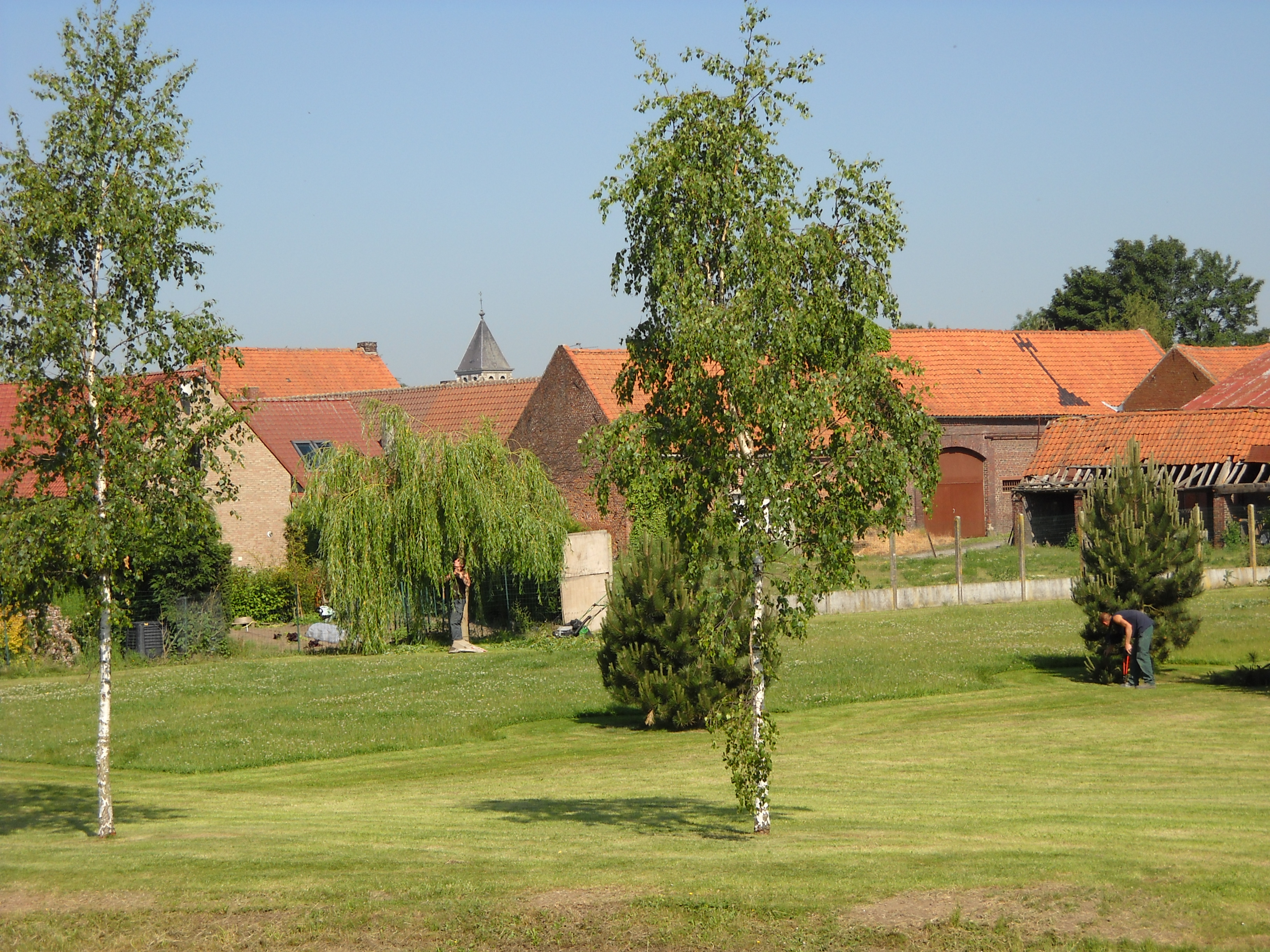 The medieval mound of Fretin, Nord, France.